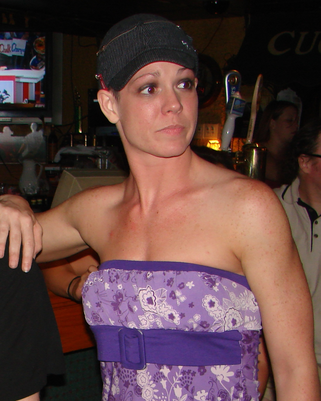 Roxxi posing for a photo at a party. Berwyn, IL.